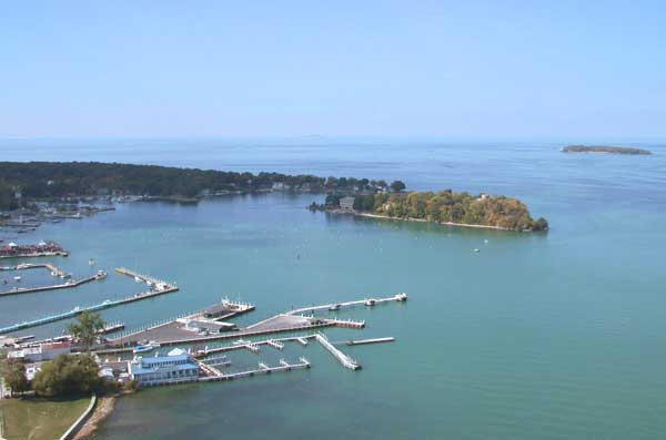 Put-in-Bay (taken Sept. 27, 2004) © 2004 Matthew Trump